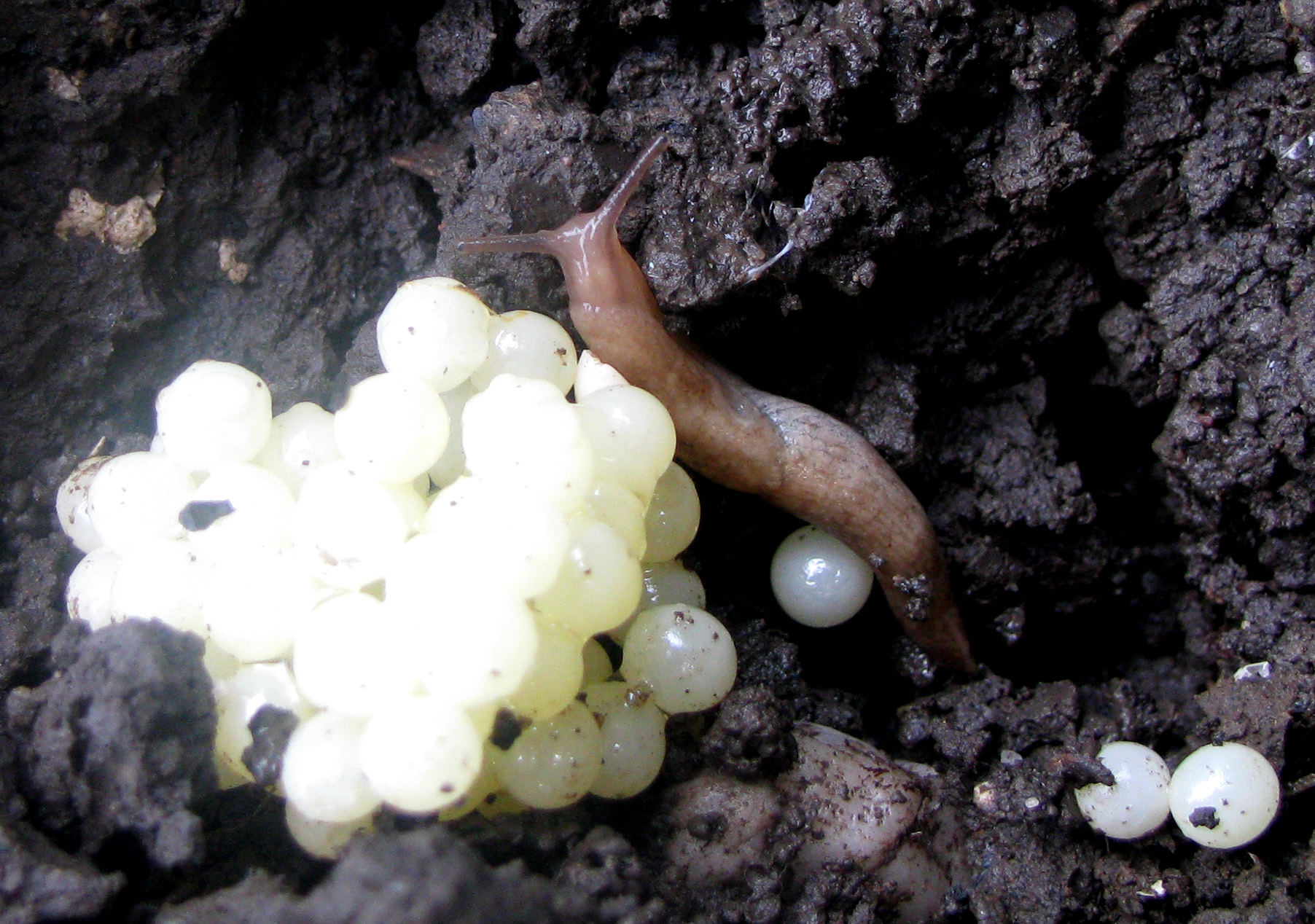 Juvenile Deroceras reticulatum slug with eggs of another gastropod, found under a stone in a garden in Weimar at the end of September 2009.